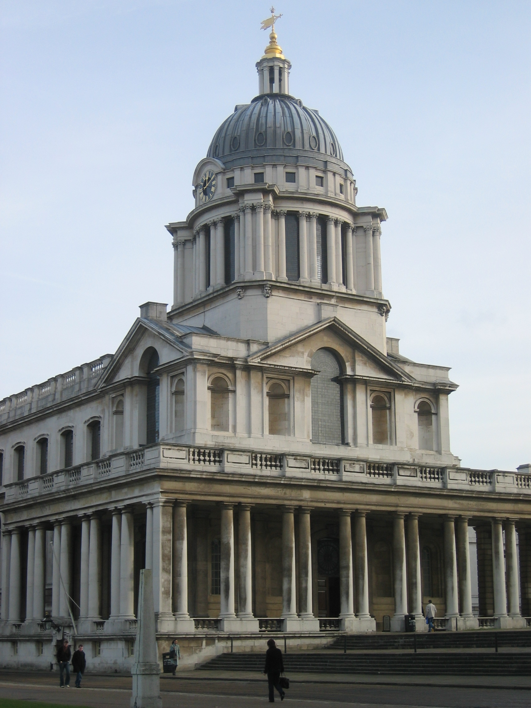 Royal Naval College, Greenwich, Kent